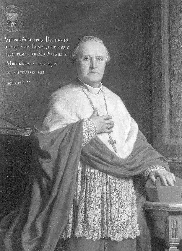 Victor August Dechamps (1810-1883) - bisschop van Namen (1865-1867) - aartsbisschop van Mechelen (1867-1883) - België